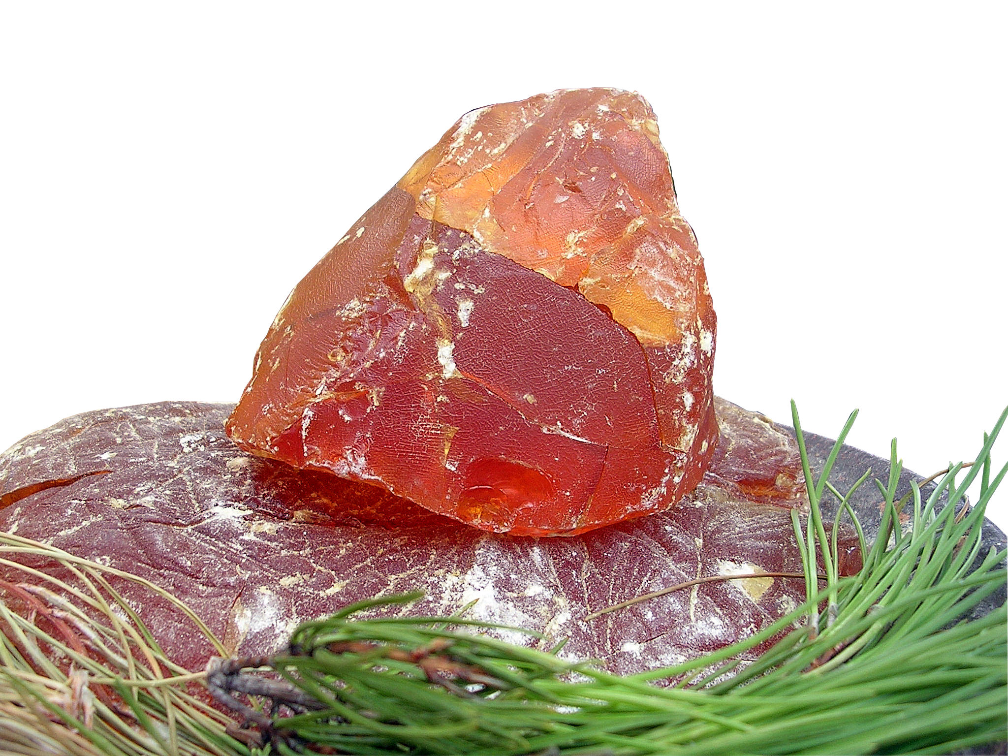 Rosin